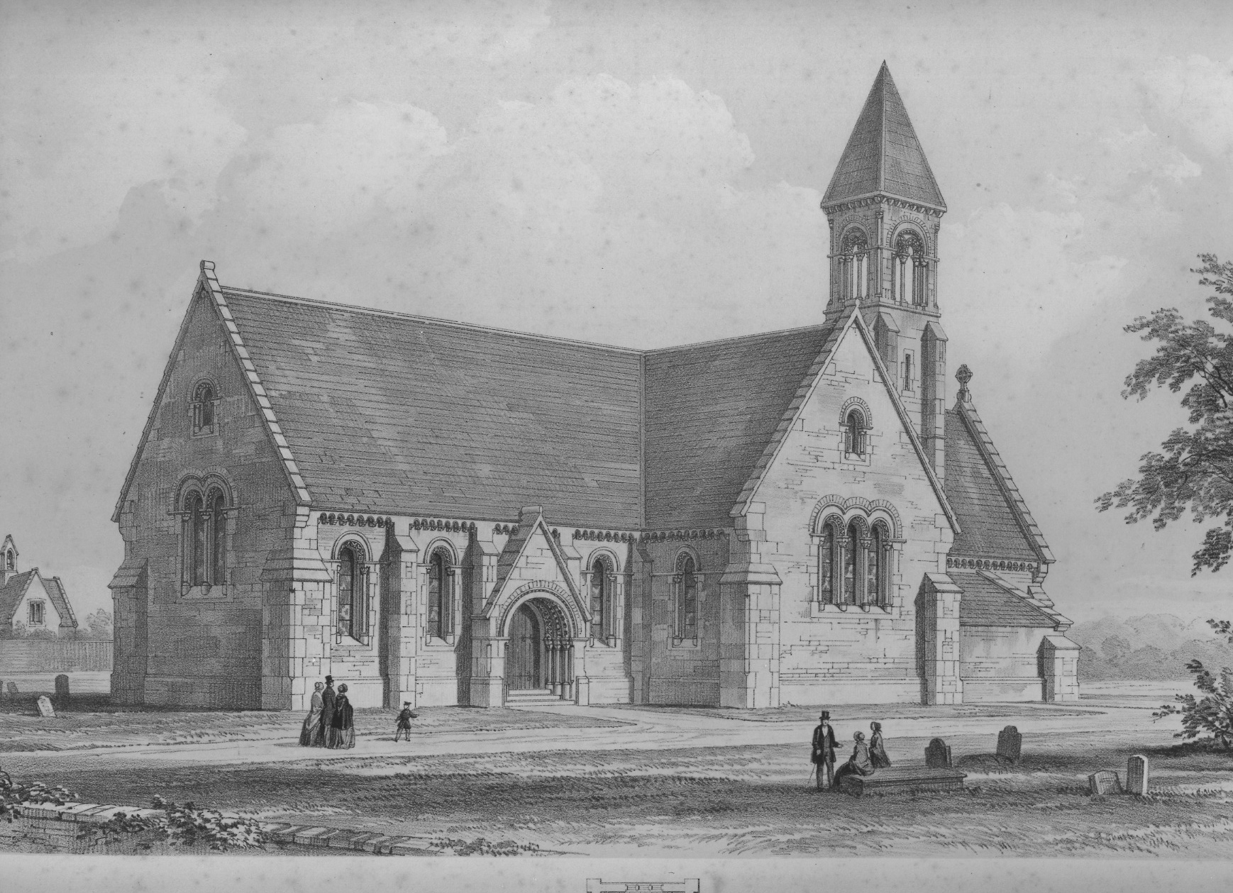 Print of Rhosllanerchruggog Church erected 1872 by from designs by Thomas Penson, Architectect